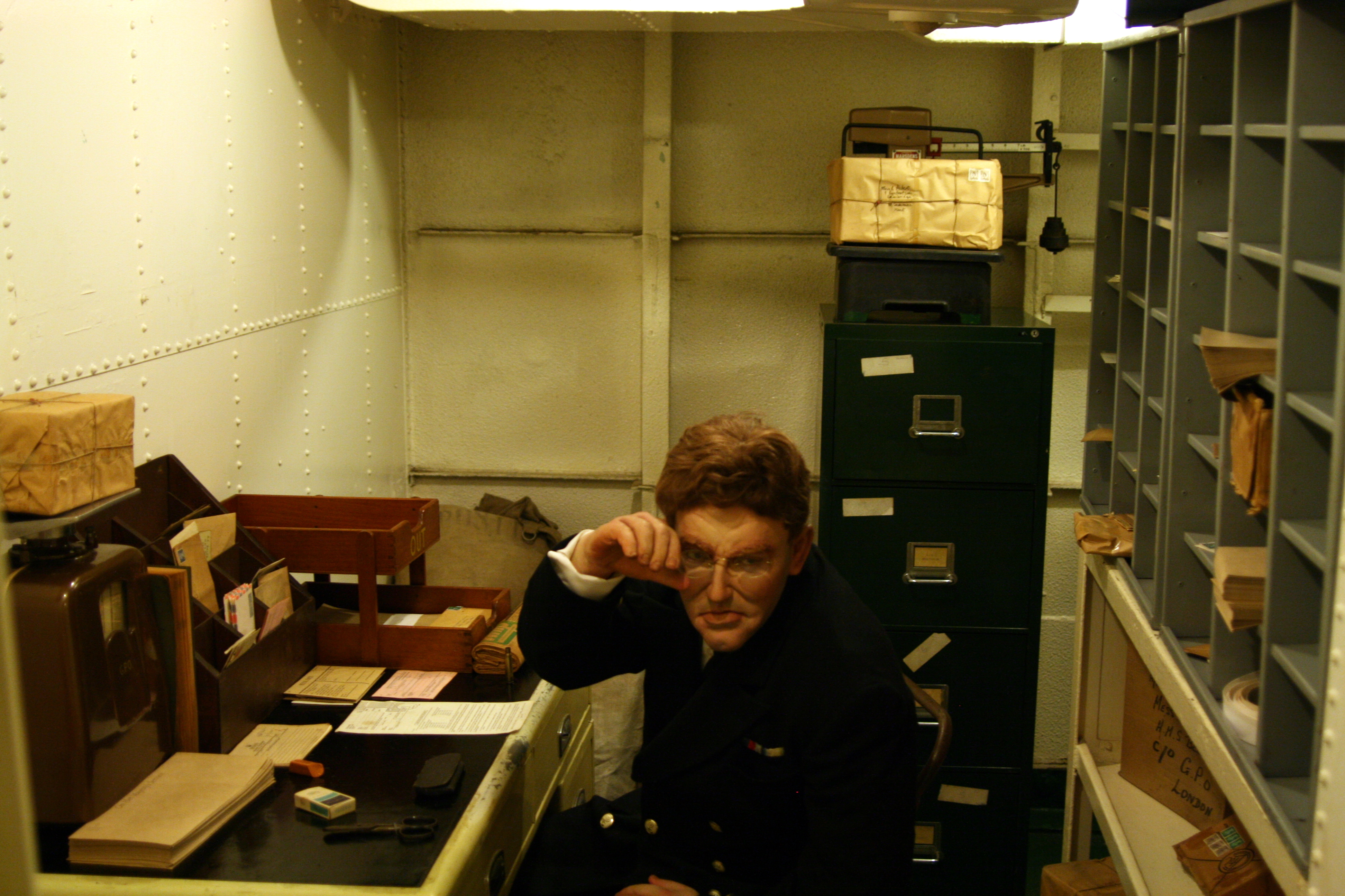 Mail room on HMS Belfast